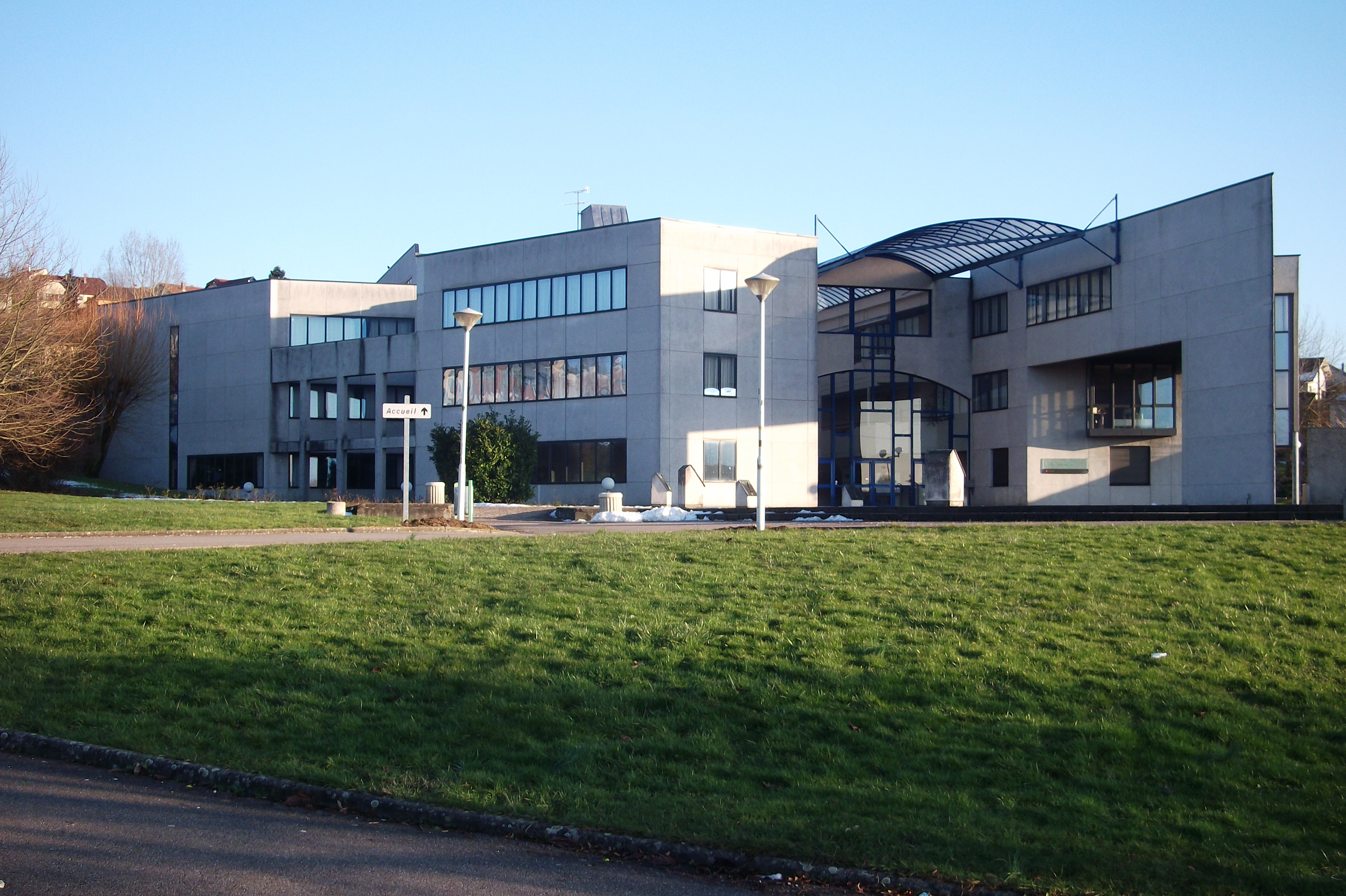 Le lycée des Haberges à Vesoul